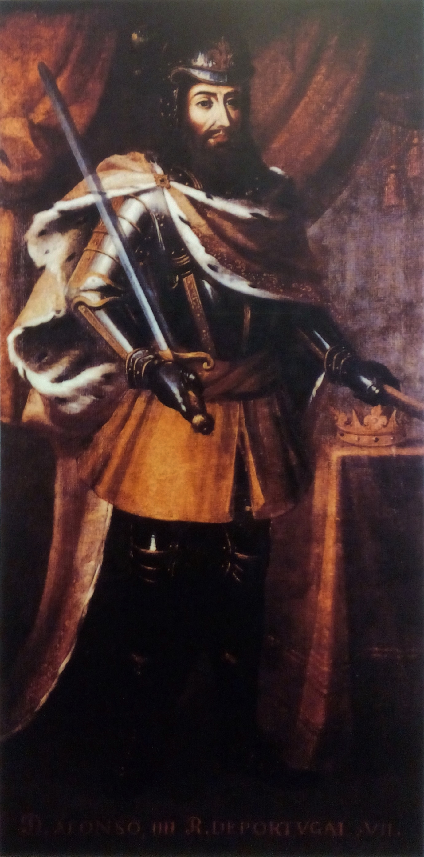 King Afonso IV of Portugal, in a 1718 painting by Henrique Ferreira